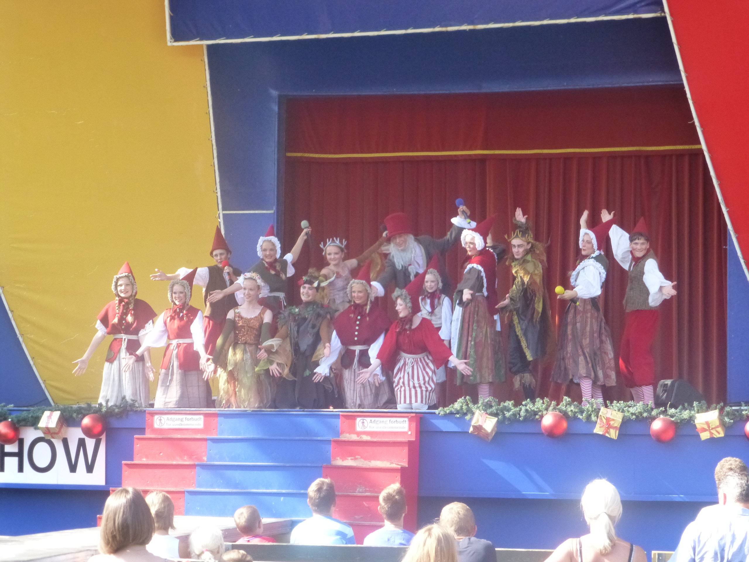 Julemændenes Verdenskongres (World Santa Claus Congress) in the amusement park Dyrehavsbakken north of Copenhagen. The Copenhagen children threatre Group Eventyrteatret (the adventure theatre).